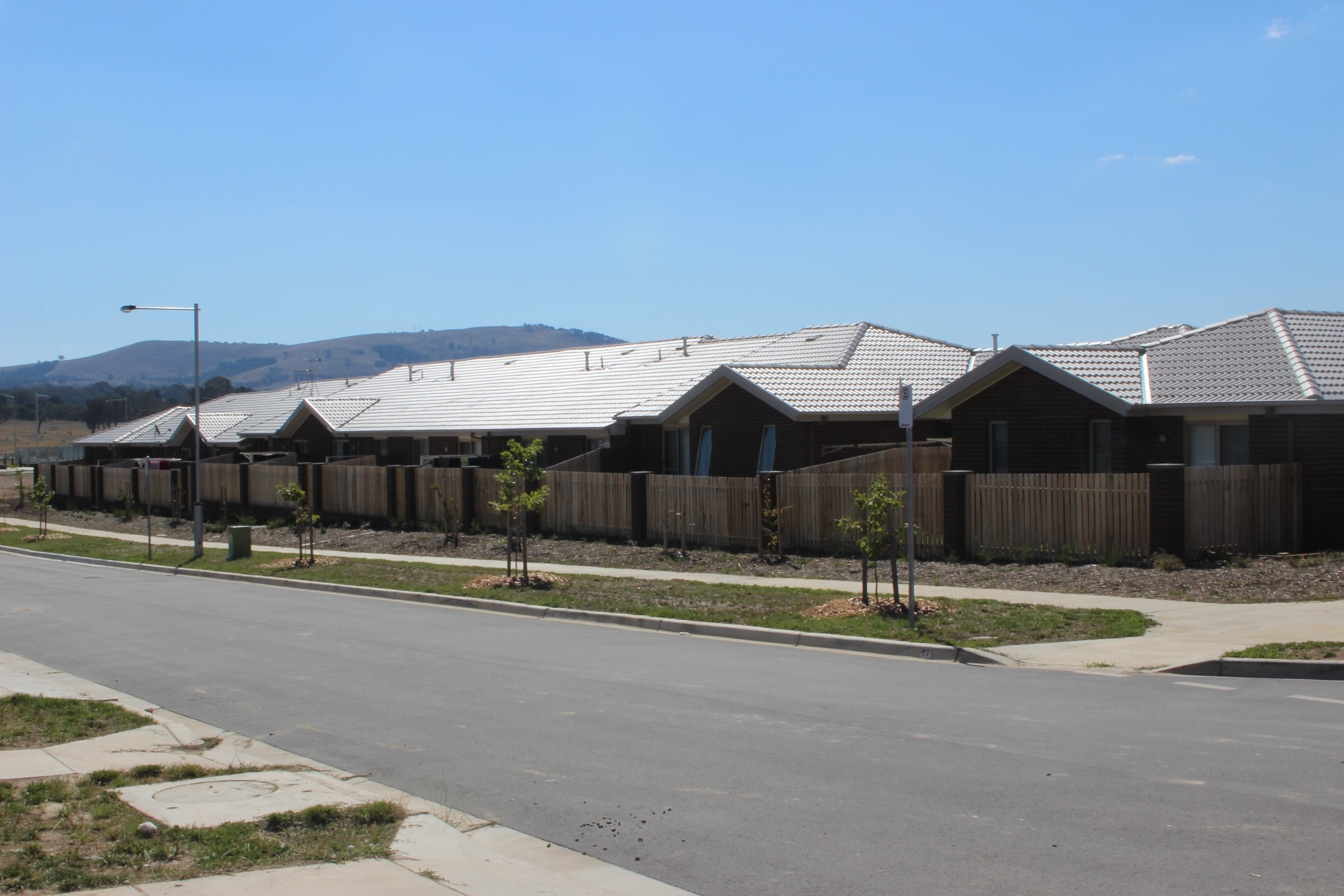 Jacka, first residences